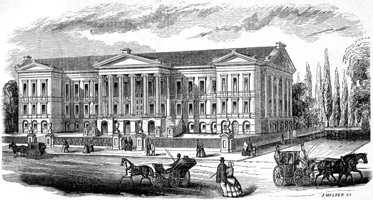 Engraving, Palais de Justice, Montreal, Ink on paper on supporting paper - Wood engraving - 12.4 x 20.3 cm